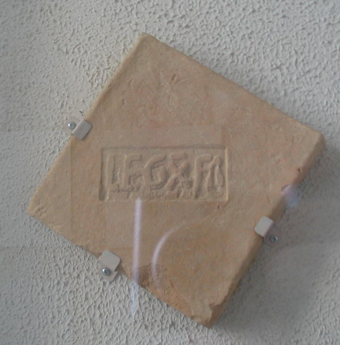 Stamp Impressions of the Legio X Fretensis - Type g6, that found in Givat Ram, Jerusalem Displayin International Convention Center (Jerusalem)